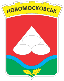 Coat Novomoskovsk (Soviet)